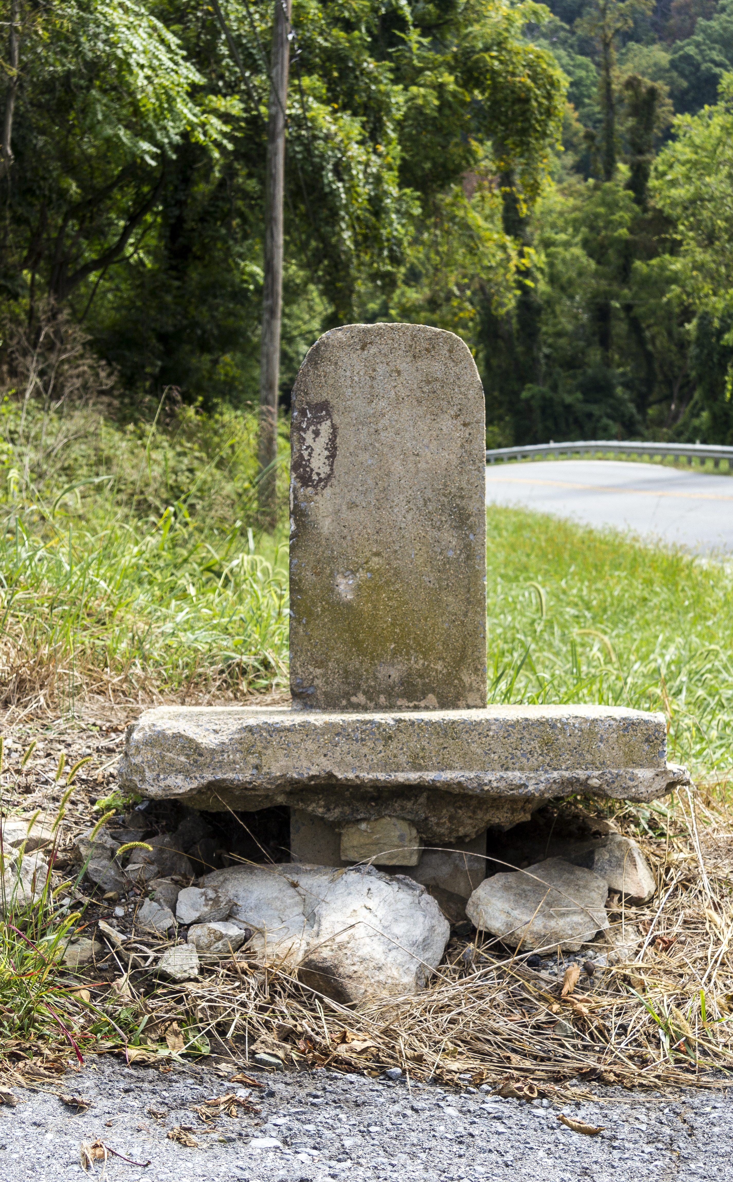 One of the Old National Pike Milestones at Alt. US 40 and Dahlgren Road, Turner's Gap, Maryland, USA.